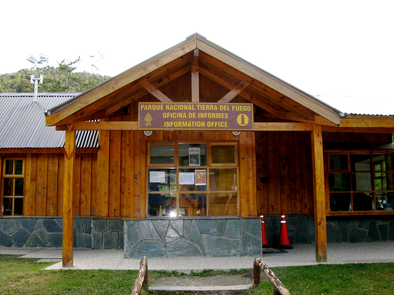 Enter of parc national Tierra del Fuego